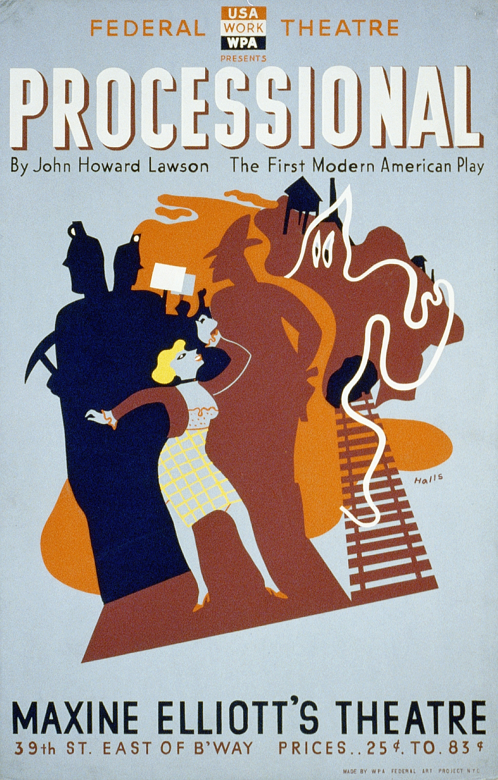 Color silkscreen poster by American illustrator Richard Halls (1906-1976) for Federal Theatre Project presentation of "Processional" ("The First Modern American Play") by American playwright John Howard Lawson (1894-1977) at the Maxine Elliott Theatre, 39th St. East of Broadway, New York City